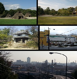 Tsuchiura montage